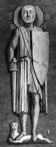 William Marshal, 1st Earl of Pembroke